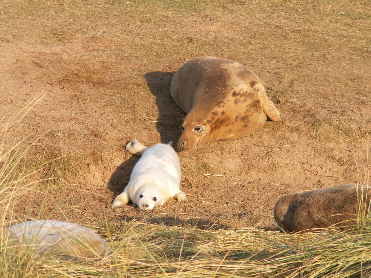 At Donna Nook - seals breeding on an an RAF bombing range